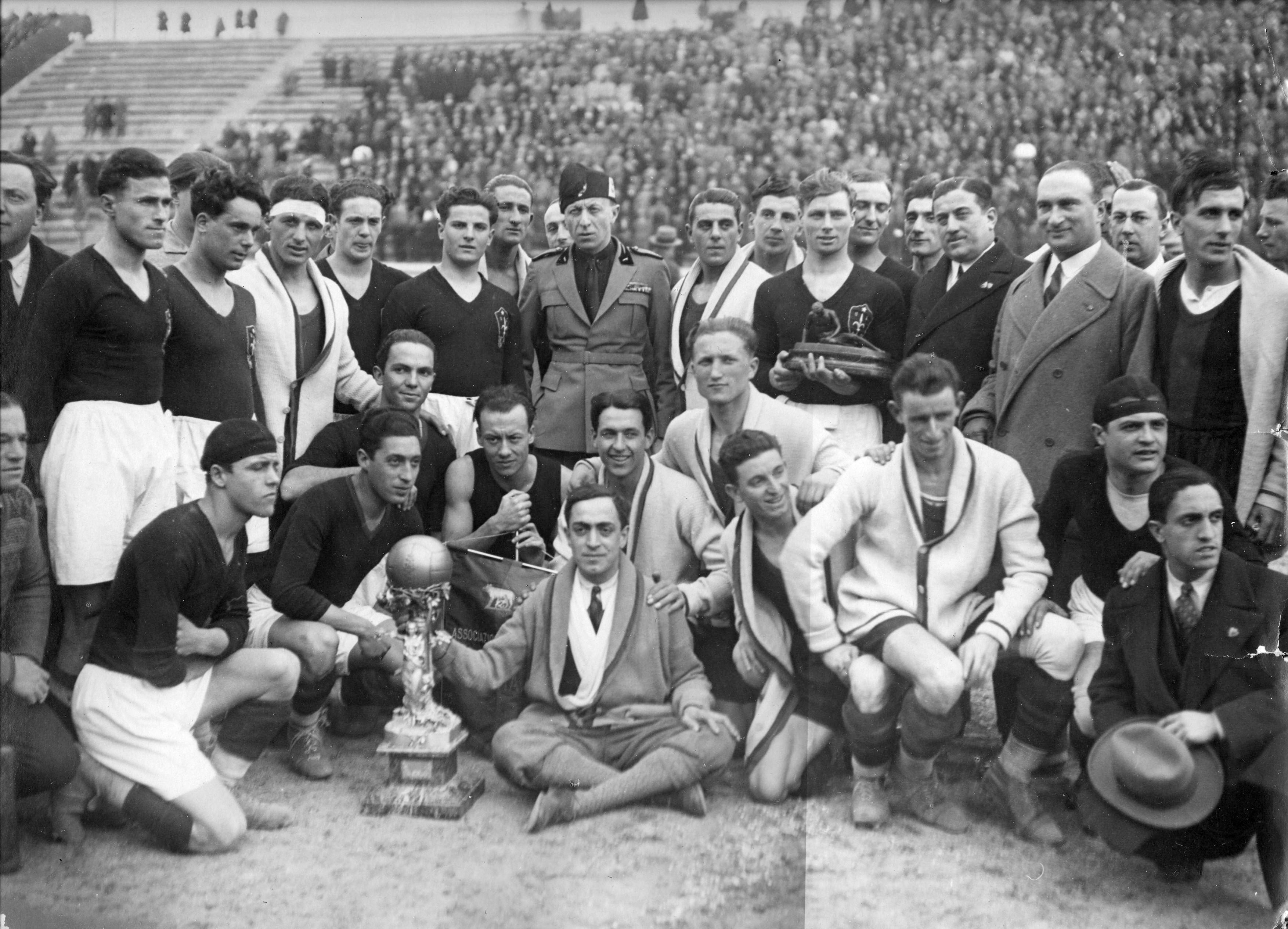 Rome, National Fascist Party Stadium, February 24, 1929. At the end of the match between A.S. Roma and U.S. Triestina (4-0), Matchday 19 of the Italian Championship 1928–29 Divisione Nazionale, Group A, the two teams posed together for the award ceremony of the 1928 CONI Cup, won by Roma on July 29, 1928; Triestina's footballers wore their home kit, with red shirt and white short, while those from Roma wore a white robe.